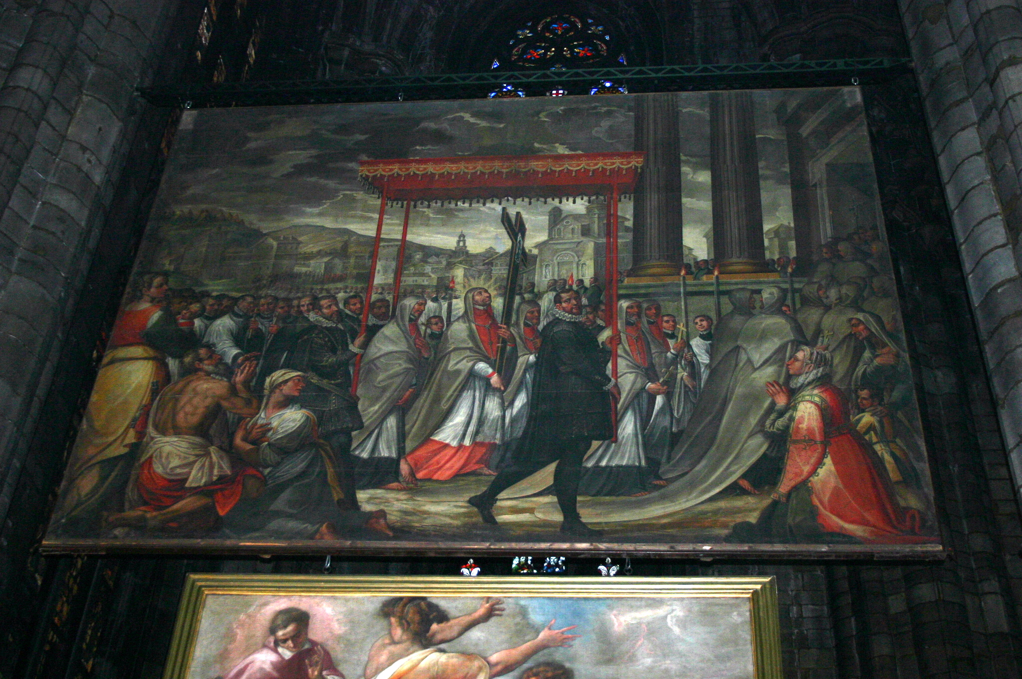 Cathedral in Milan, Italy. "Quadroni of St. Charles". Fiammenghino, "Saint Charles goes in procession with the Holy Nail" [1602]. Picture by Giovanni Dall'Orto, December 6 2007.